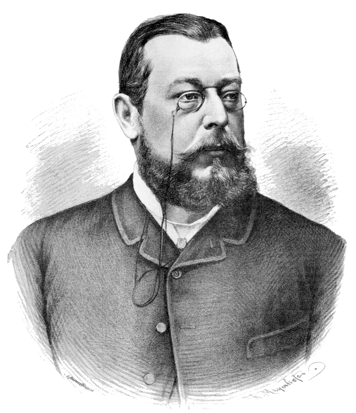 Julius Glax (1846–1922), Austrian physician and professor